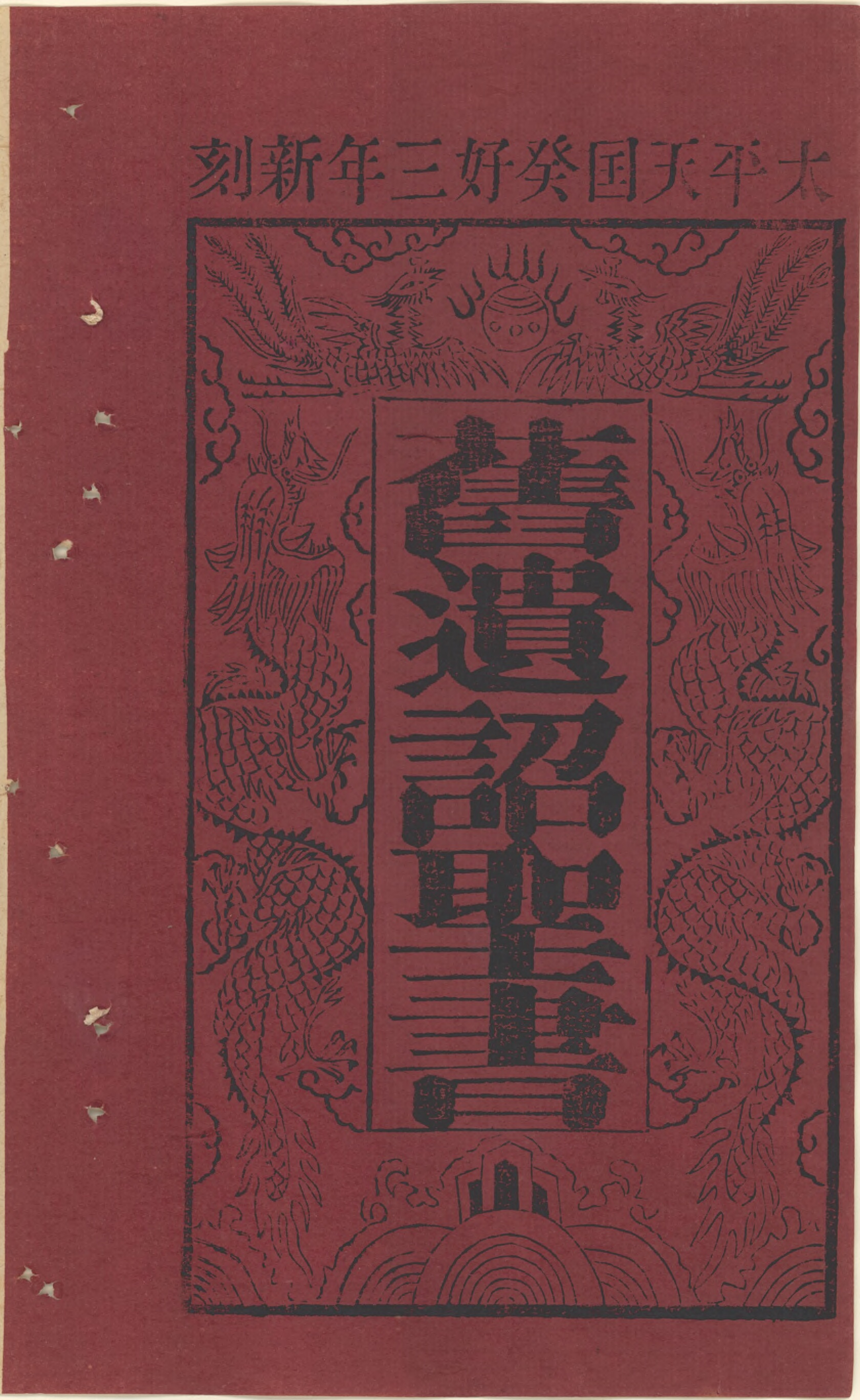 Bible in classical Chinese, published by Taiping Heavenly Kingdom